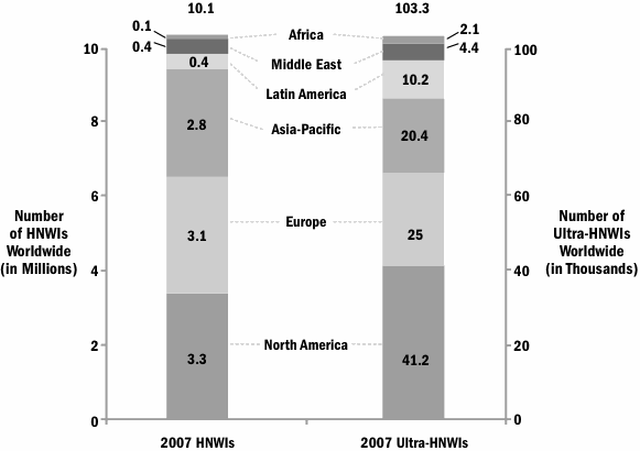 Number of the High Net Worth Individuals (HNWIs) hold at least US$1 million in financial assets, excluding collectibles, consumables, consumer durables and primary residences. Utra-High Net Worth Individuals (Ultra-HNWIs) hold at least US$30 million.